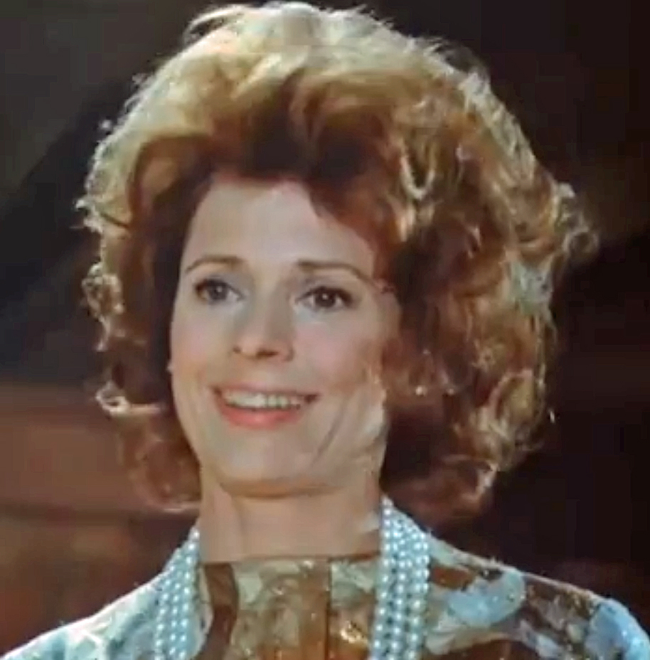 Joan Hotchkis in trailer from "Breezy" (1973)